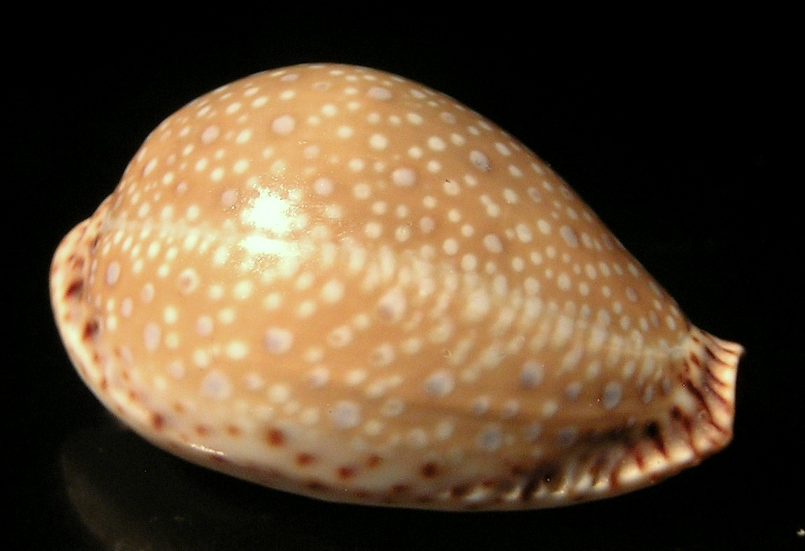 Erosaria lamarckii fainzilberi Lorenz & Hubert, 1993, a cowry from the family Cypraeidae; Vietnam